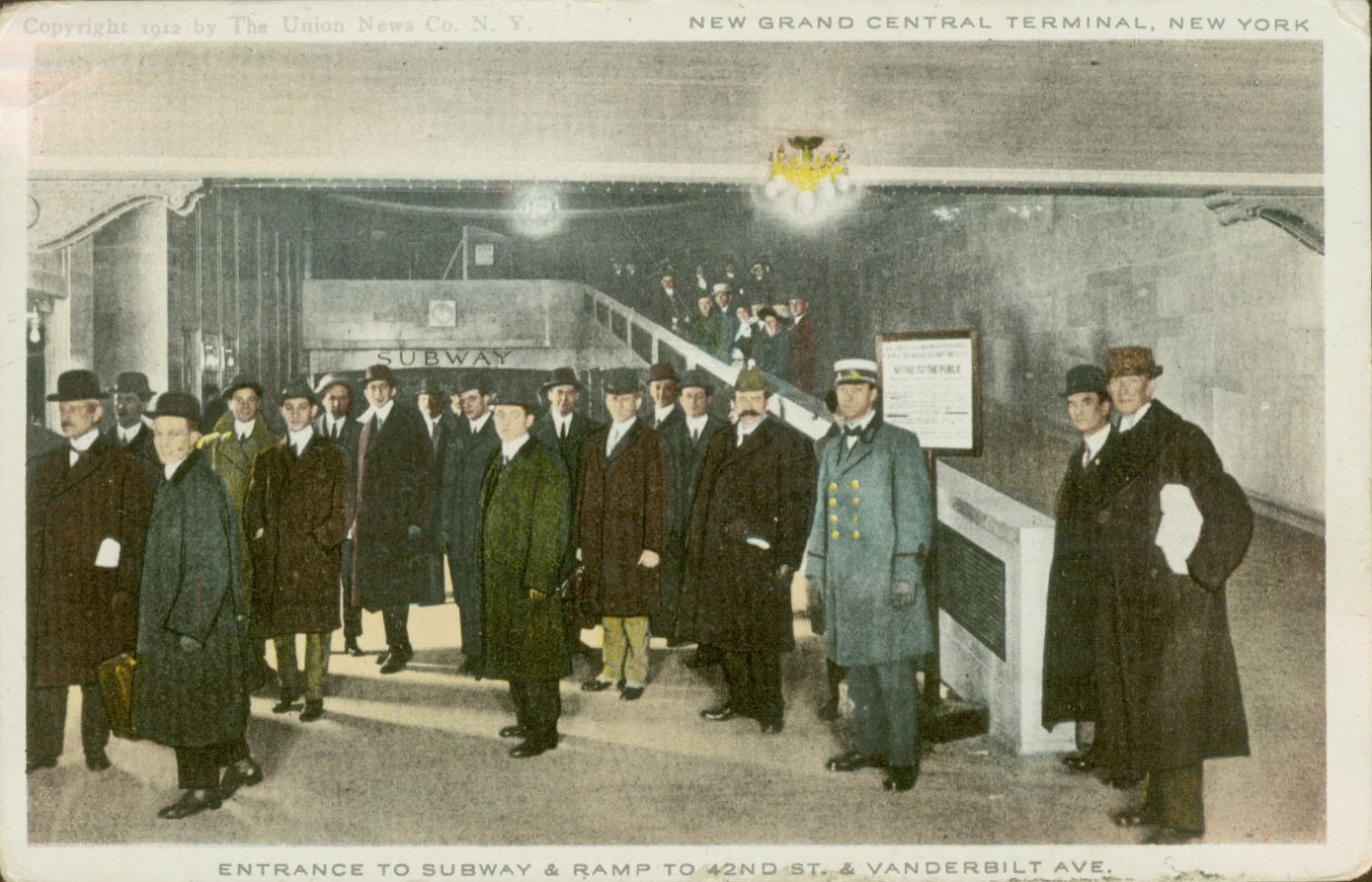 Postcard picture (posed) of people at Grand Central Terminal in New York, New York, on their way to the subway station there or leave from doors on Vanderbilt Avenue. Note people farther up the ramp on the right side who are stopped, indicating even more strongly that the picture was posed. Postcard was mailed in 1913